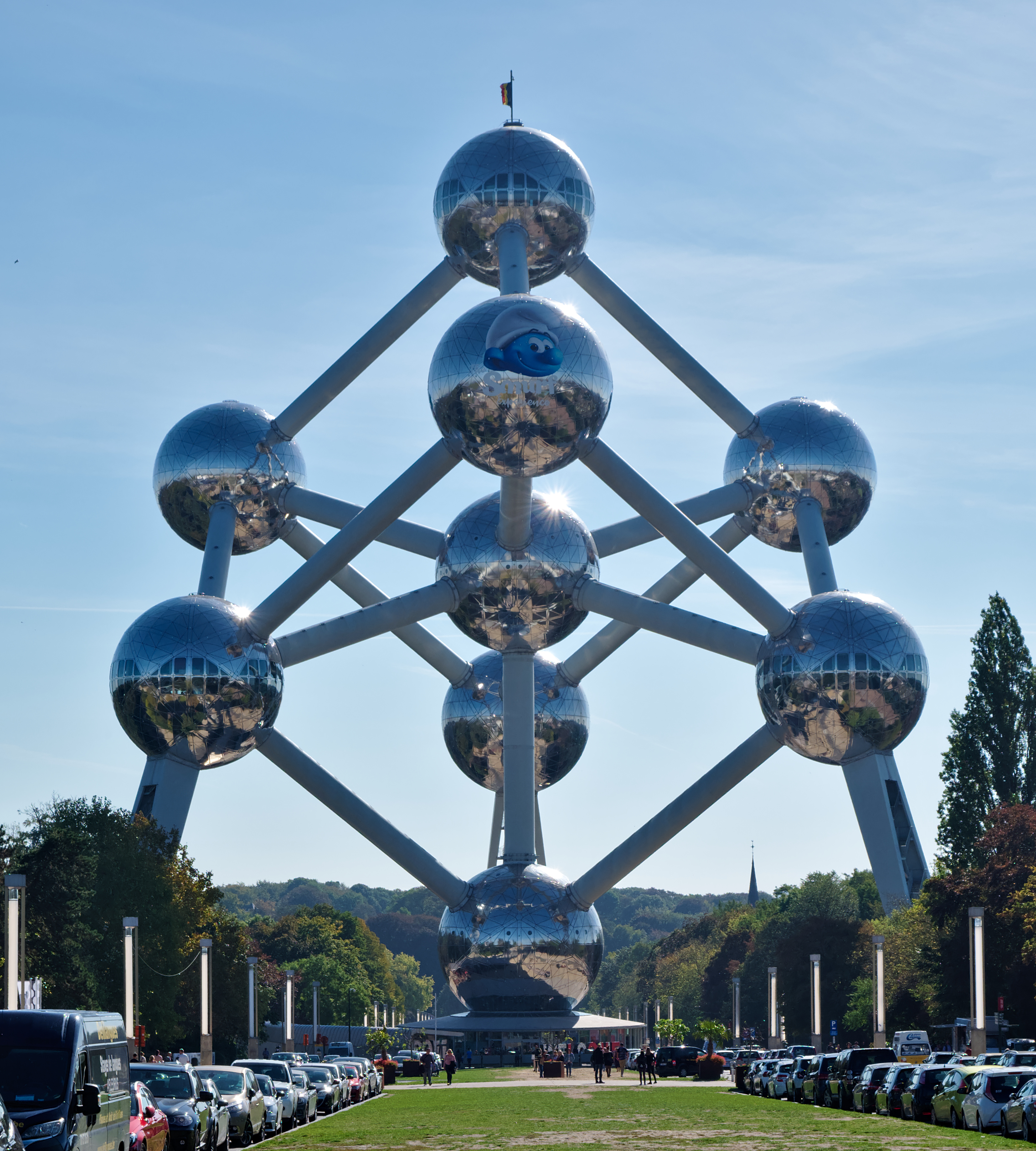 The Atomium's North face with a Smurf This photo of immovable heritage has been taken in the Brussels Capital Region